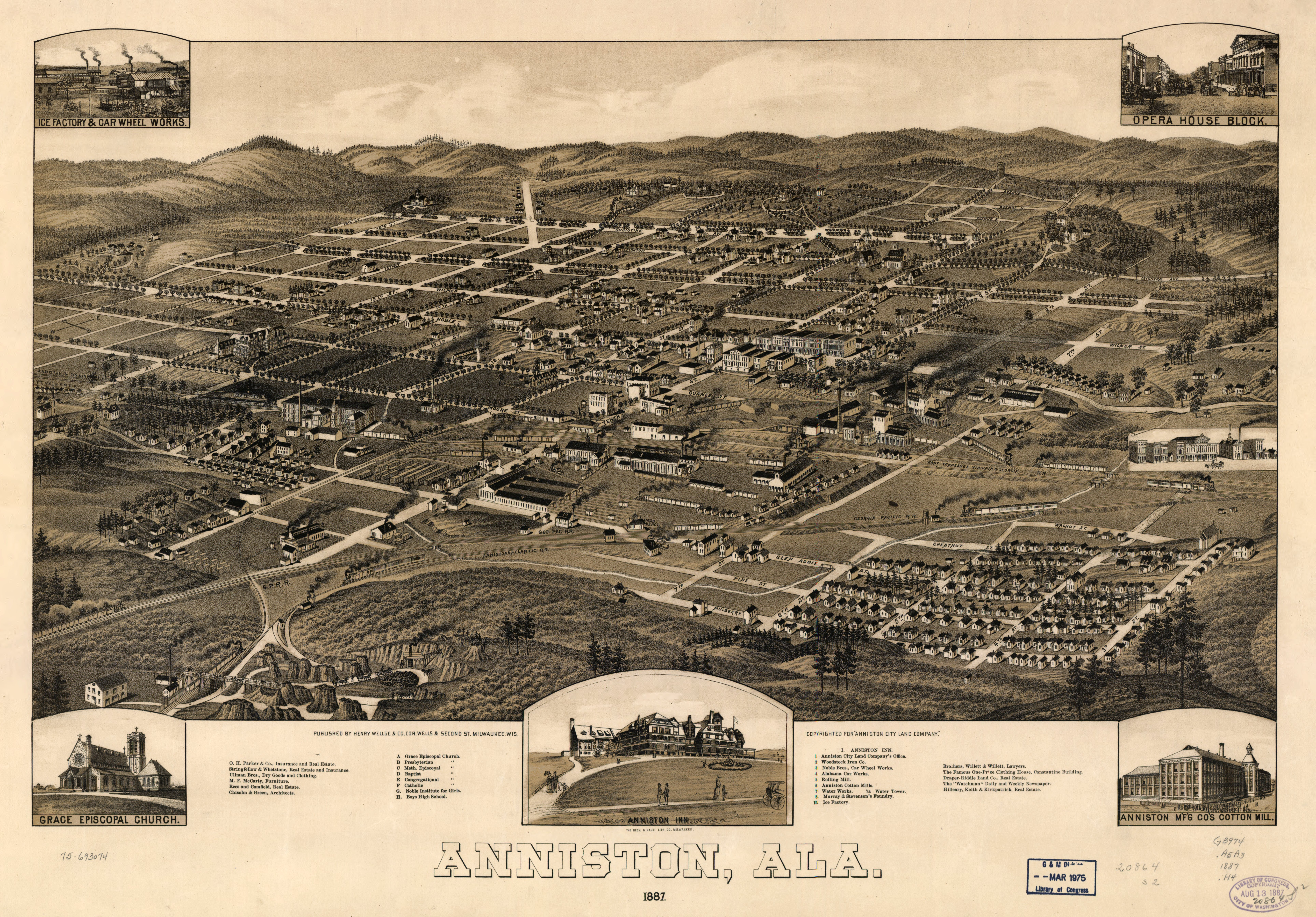 This perspective/panoramic map, created by Henry Wellge, shows a bird's eye view of Anniston, Alabama in 1887. It was published by Beck & Pauli Lith. Co. and "copyrighted for 'Anniston City Land Company'". It is not drawn to scale. It contains illustrations and an index to points of interest: Grace Episcopal Church, Presbyterian Church, Methodist Church, Baptist Church, Congregational Church, Catholic Church, Noble Institute for Girls, Boys High School, Anniston City Land Company's Office, Woodstock Iron Co., Noble Bros. Car Wheel Works, Alabama Car Works, Rolling Mill, Anniston Cotton Mills, Water Works, Water Tower, Murray & Stevenson's Foundry, Ice Factory, and others.